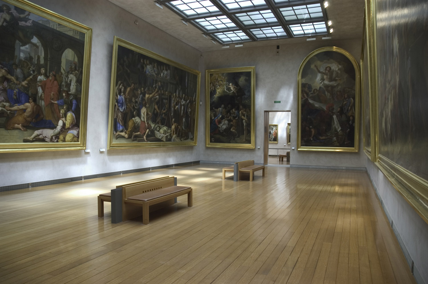 View of a room in the Fine Arts museum of Lyon displaying 17th century paintings.